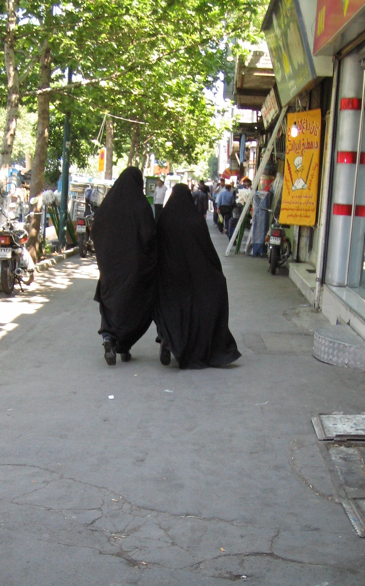 Two women wearing a black chador,seen from the back, near Tehran Grand Bazar